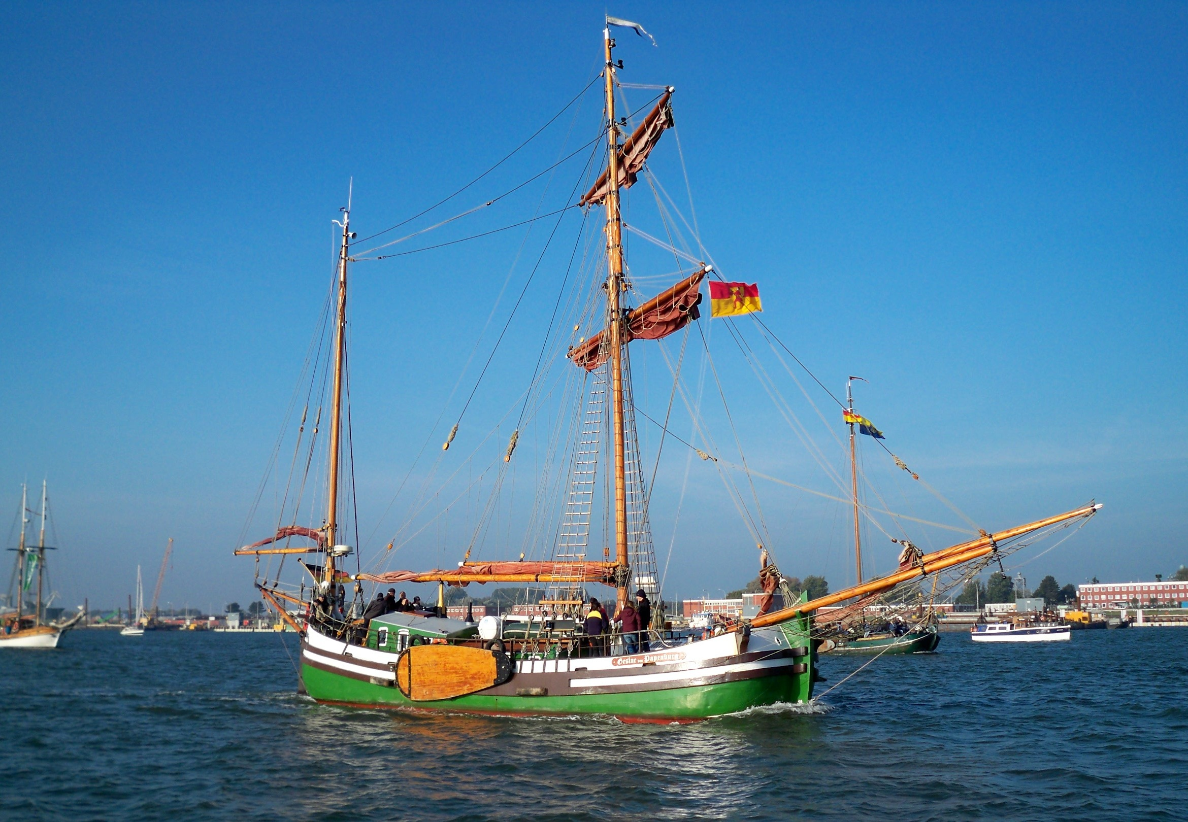 German smack Gesine von Papenburg departing Wilhelmshaven for the JadeWeserPort-CUP 2014